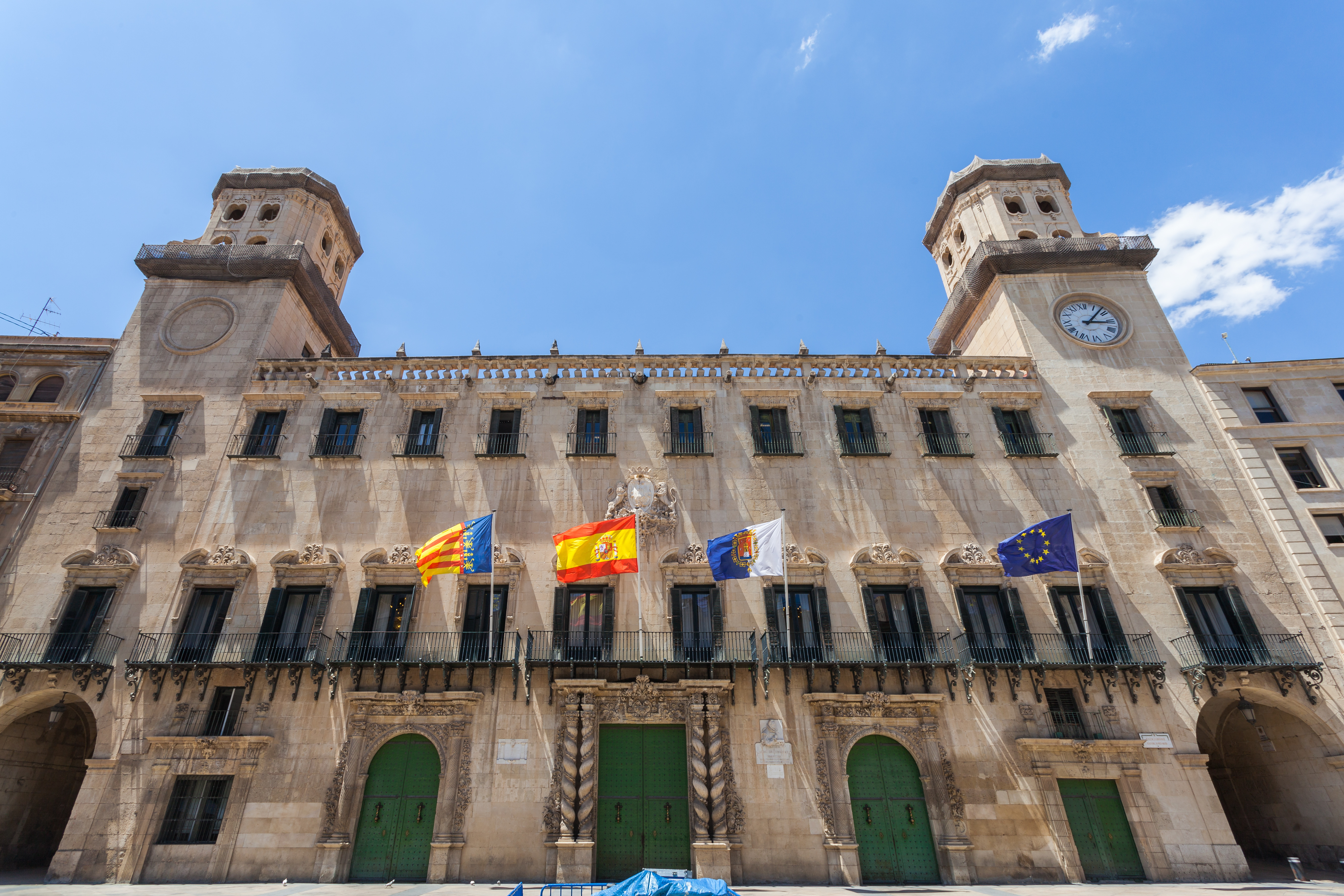 Alicante town hall, Spain